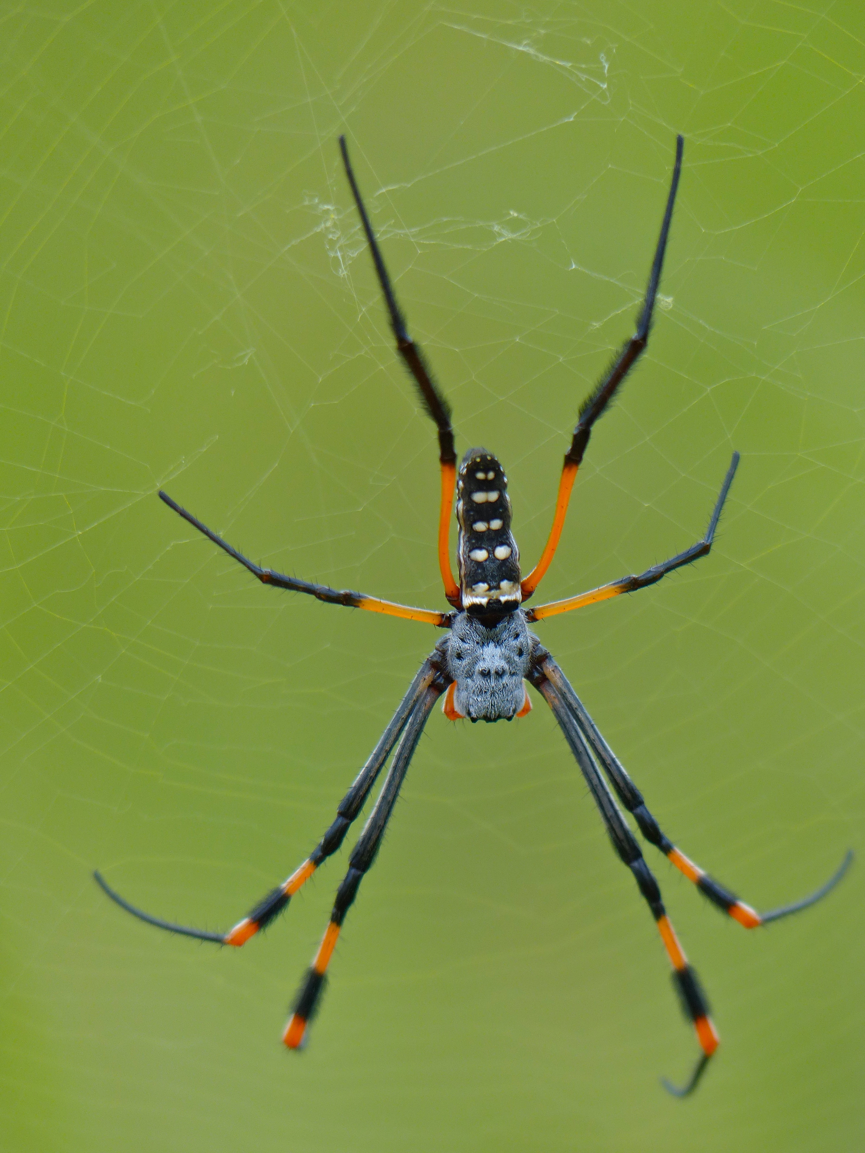 H1-4 Road North of Satara, Kruger NP, SOUTH AFRICA